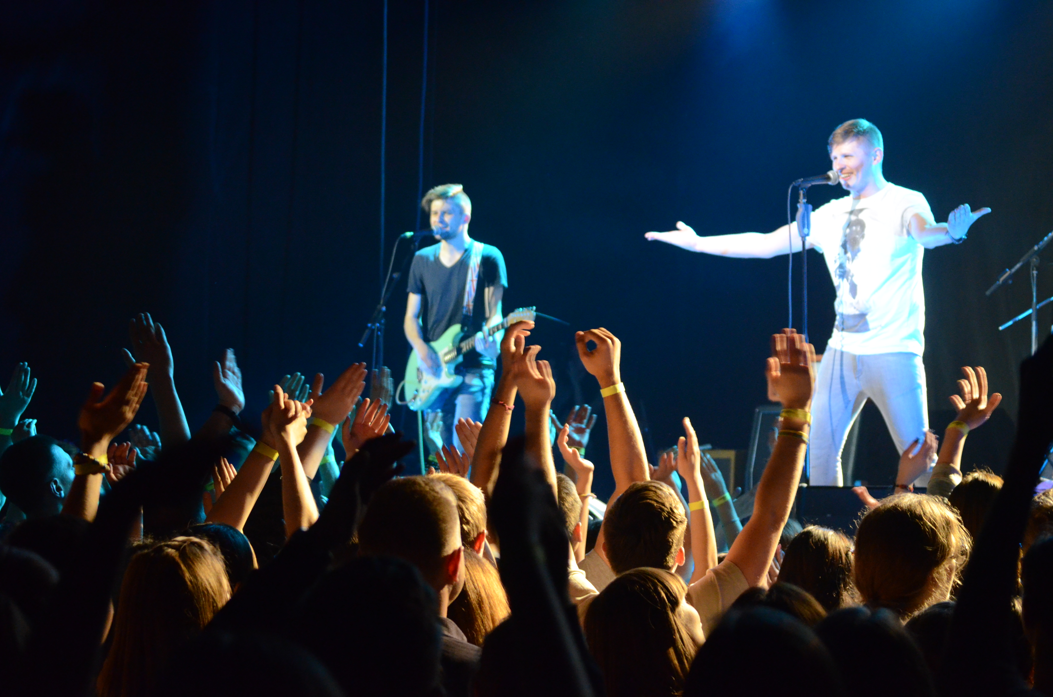 Fiolet concert in Kyiv